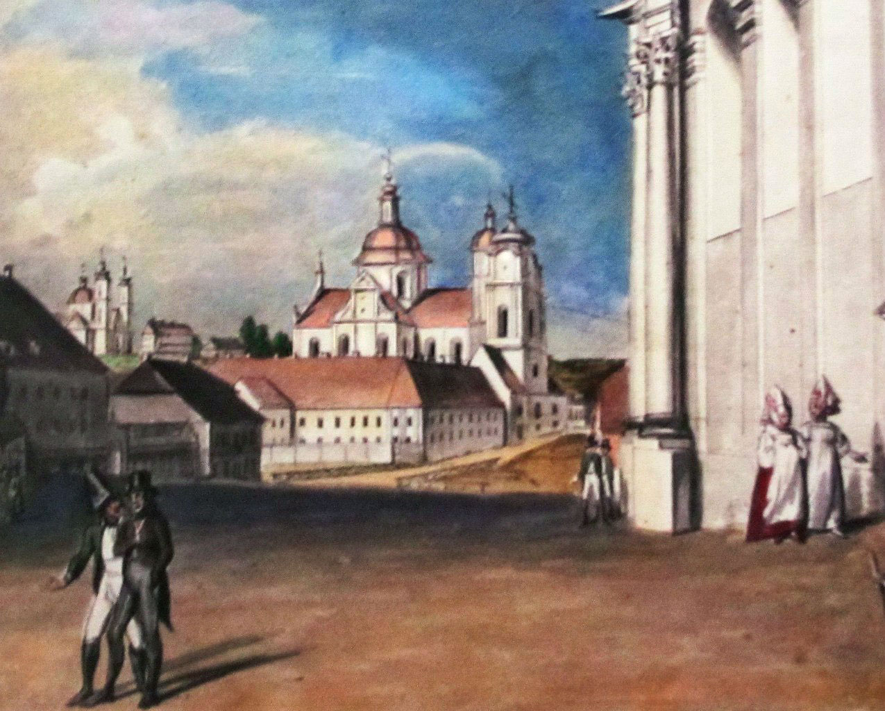 Non existent catholic church of St. Joseph in Viciebsk, J. Peska